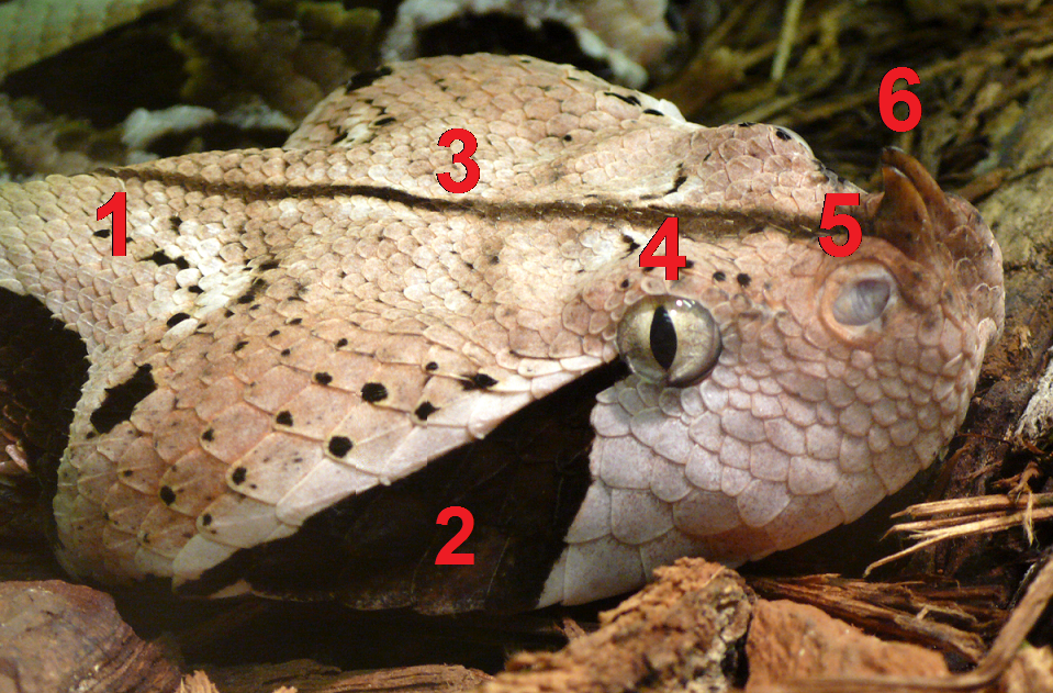 West African gaboon viper (Bitis gabonica rhinoceros)